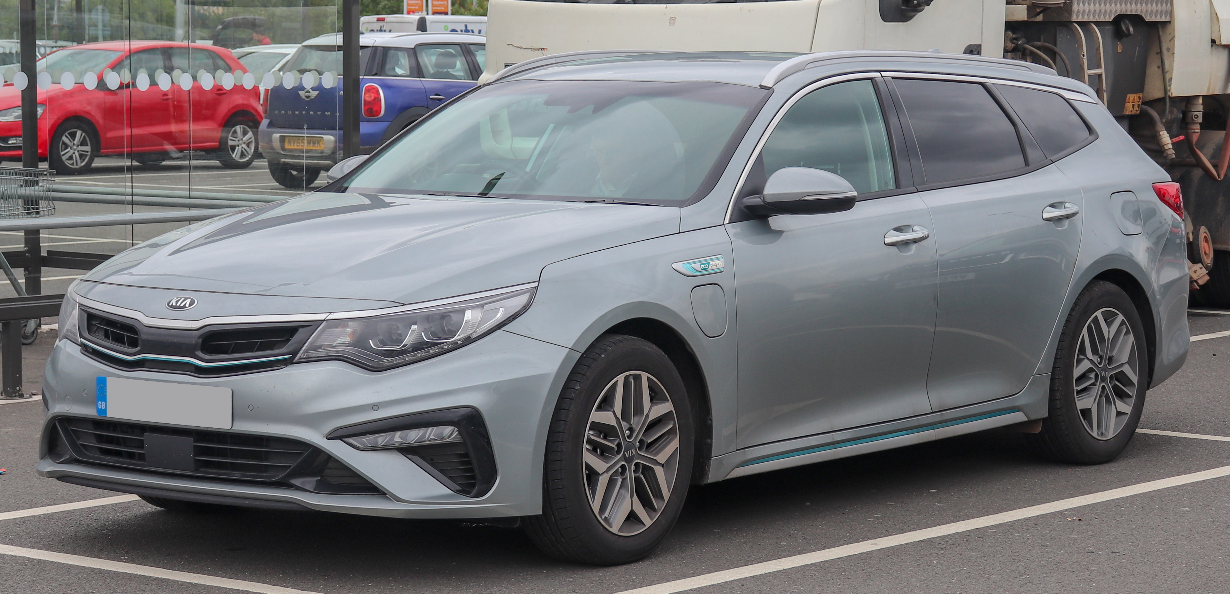 2019 Kia Optima PHEV Automatic Estate 2.0 Taken in Leamington Spa